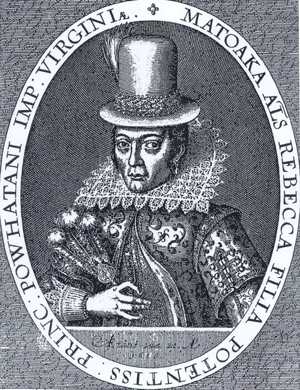 Portrait of Pocahontas, wearing a tall hat, and seen at half-length. Around the oval lettering reads: "MATOAKA AĽS REBECCA FILIA POTENTISS: PRINC: POWHATANI IMP: VIRGINIÆ". Below oval "Ætatis suæ 21. Ao / 1616." Below: "Matoaks aľs (alias) Rebecka daughter to the mighty Prince / Powhâtan Emperour of Attanoughkomouck aľs (alias) virginia / converted and baptized in the Christian faith, and / wife to the wor[shipfu]ll Mr. Joh. Ralff." Engraving by the Dutch and British printmaker and sculptor Simon van de Passe. Courtesy of the British Museum, London.